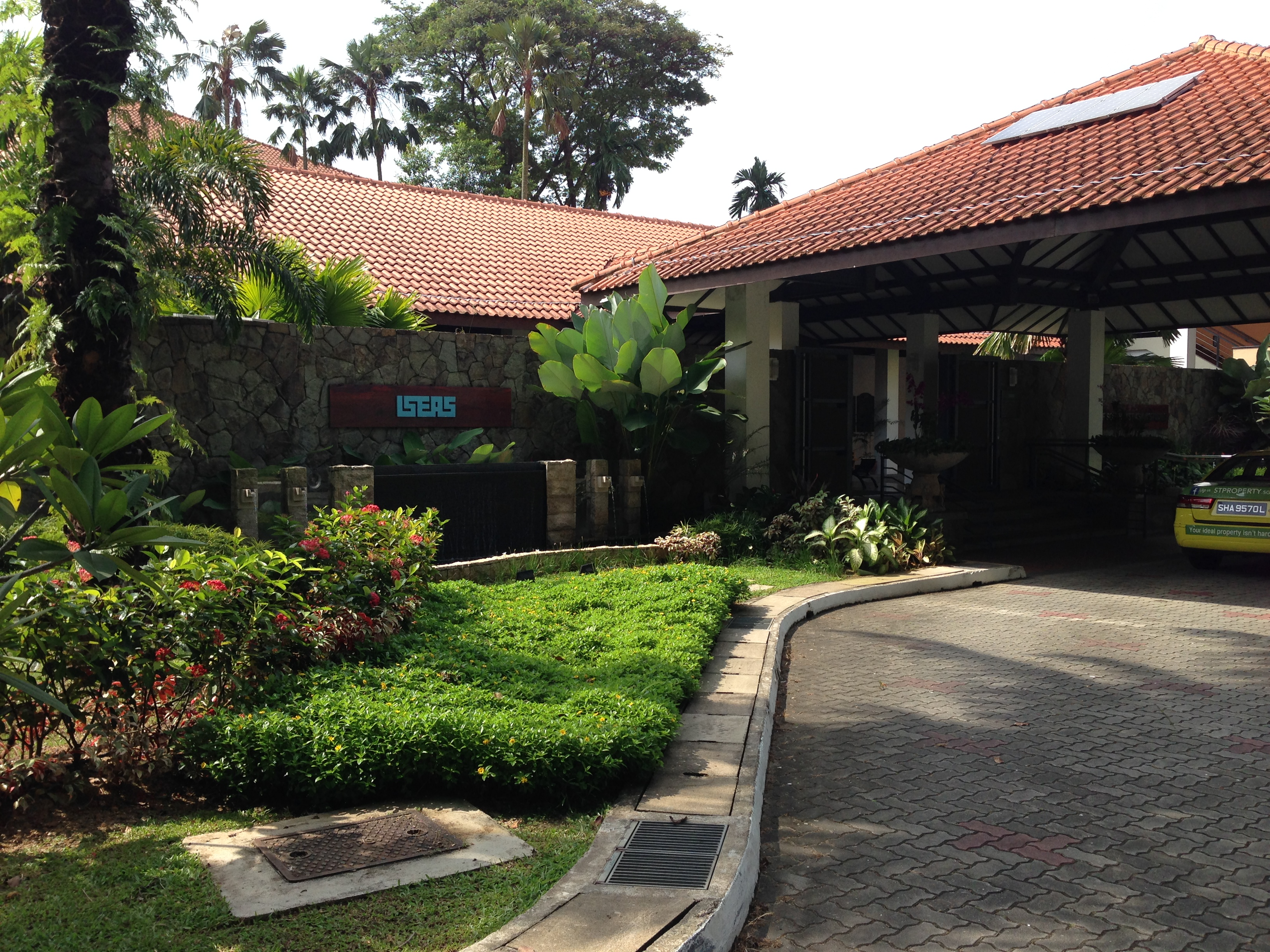 The Institute of Southeast Asian Studies, Singapore.